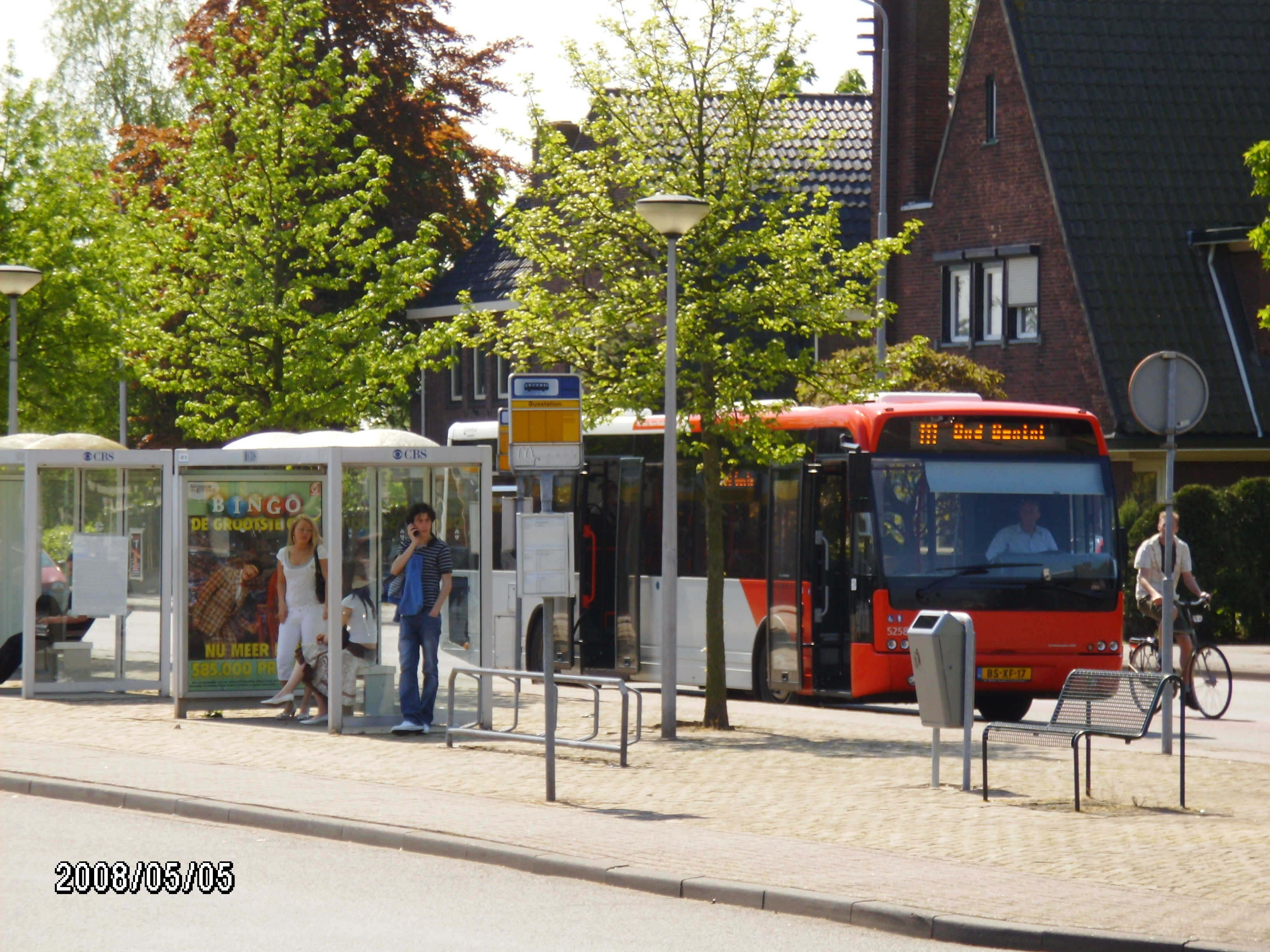 Bus station of the Dutch town of Steenbergen.